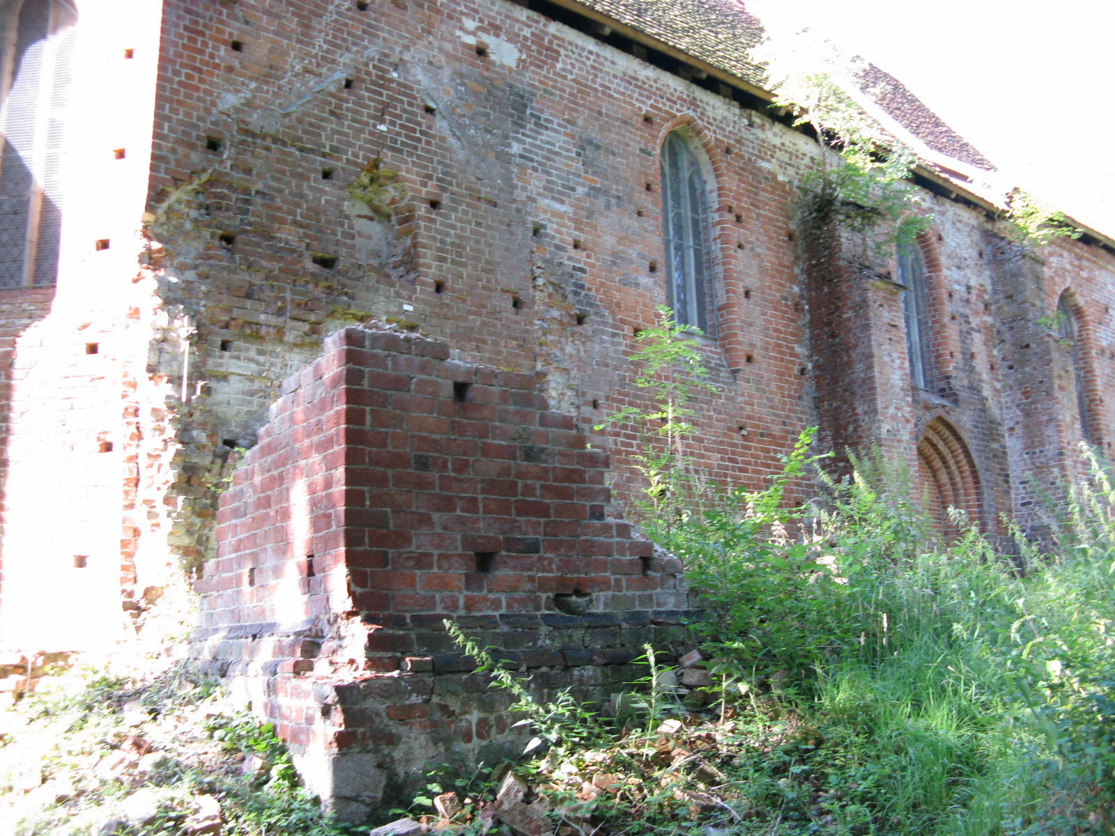 Church in Eickelberg, disctrict Güstrow, Mecklenburg-Vorpommern, Germany